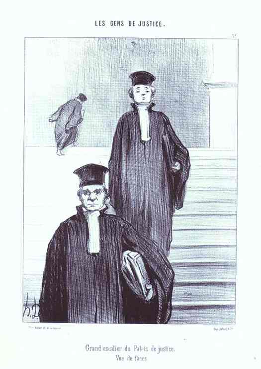 Grand staircase of the palace of justice Before 1860